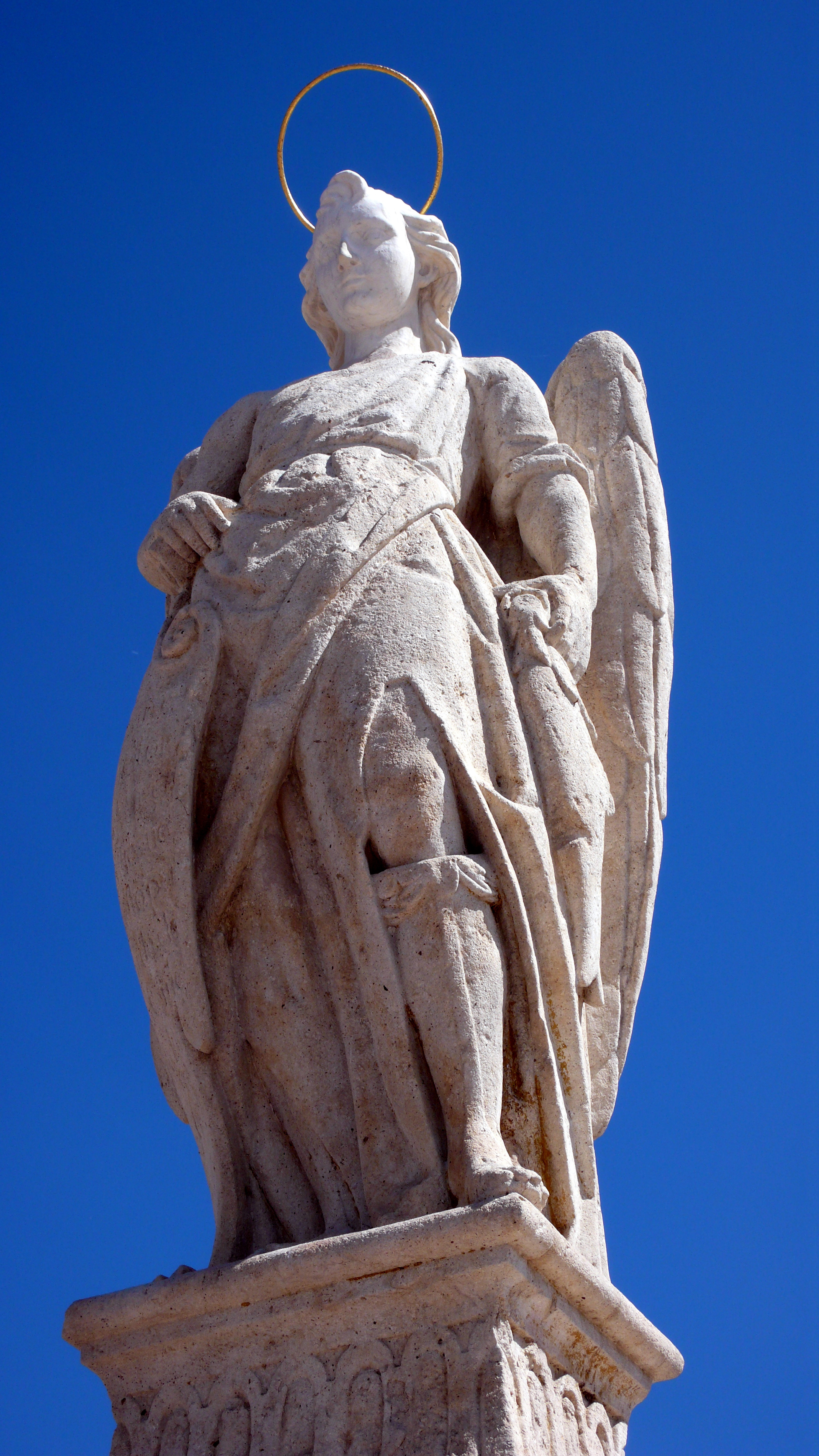 Statue of Saint Raphael by Bernabé Gómez del Río from 1651 on the Roman Bridge in Cordoba - Spain